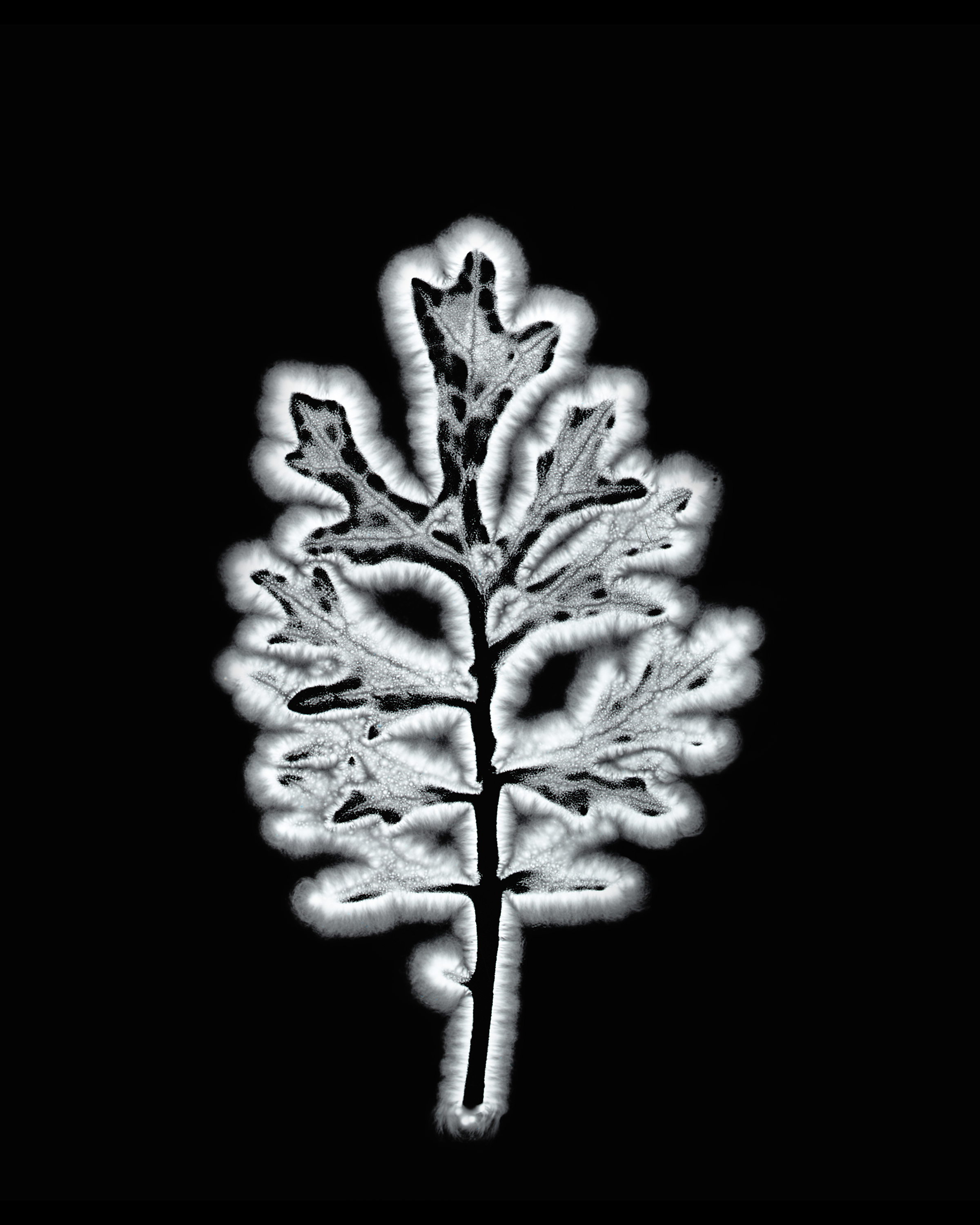 Mark D Roberts Photography